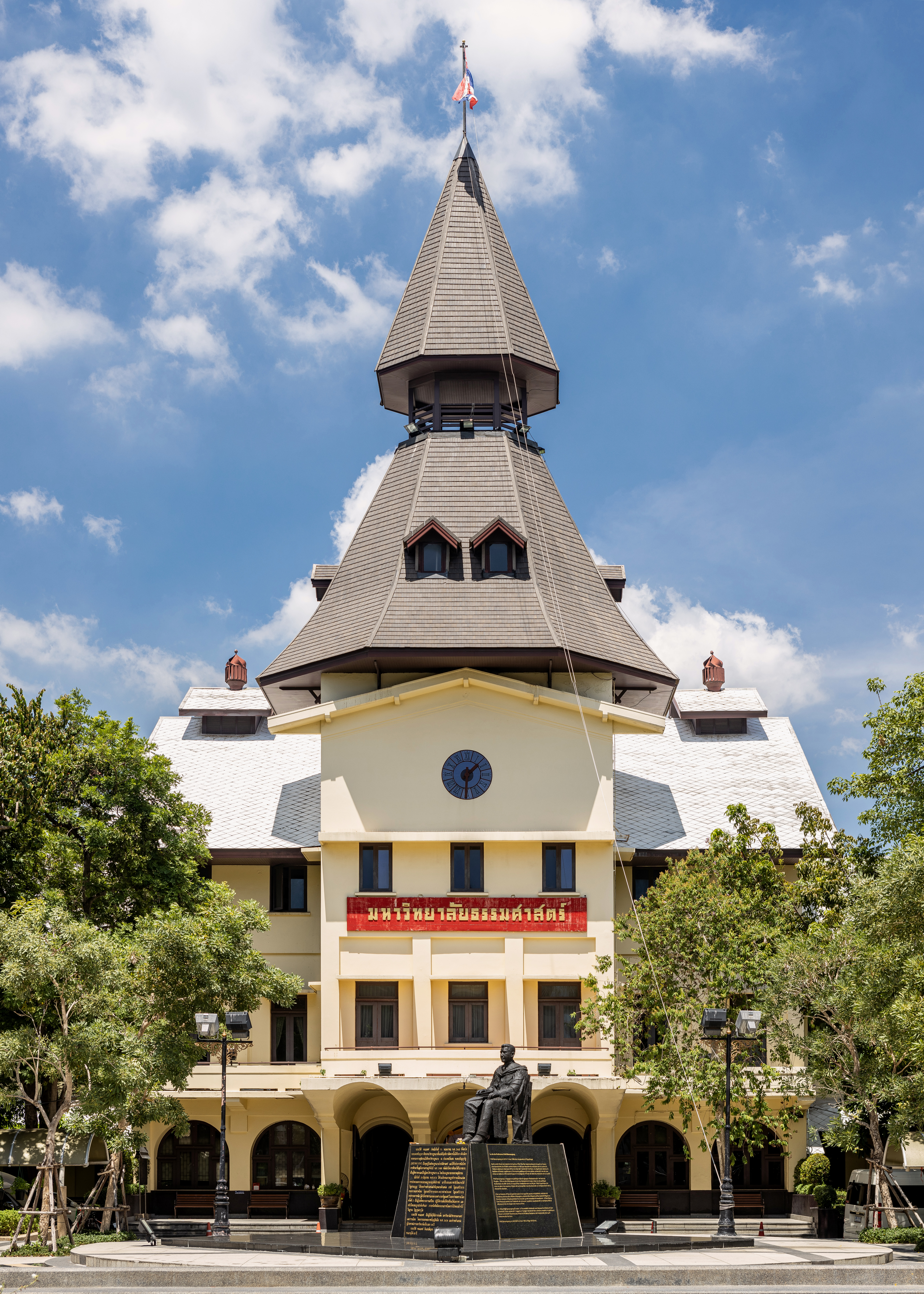 Dome of Thammasat University and Pridi Phanomyong monument.